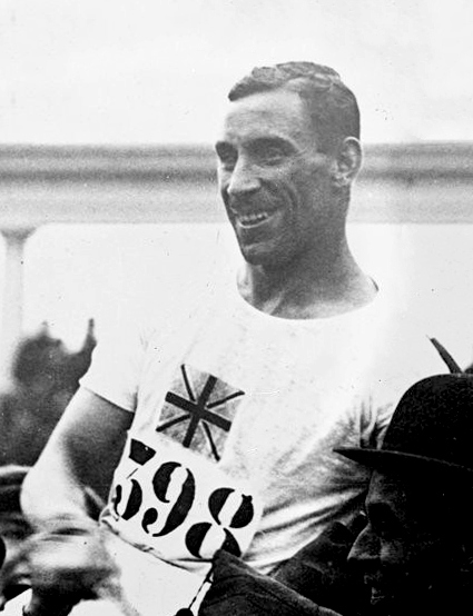 Olympic Games, Antwerp, Belgium, Men's 1500 Metres, Great Britain's Albert Hill is congratulated after winning the gold medal in the race, Hill also won gold in the 800 metres